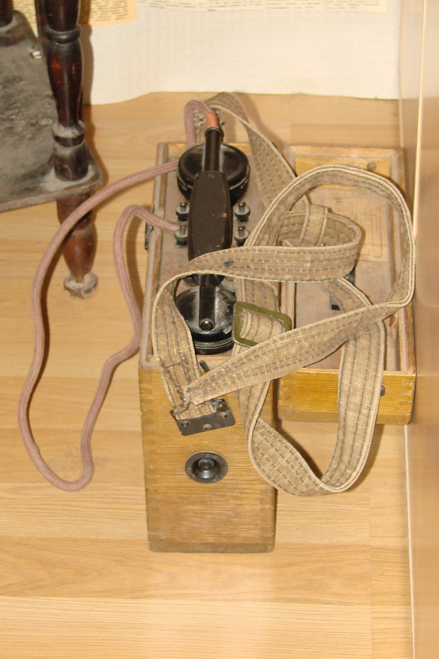 Russia, Vologda, Vologda Railway College Museum, soviet military field telephone